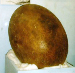 Author: Sarah Hartwell Replica egg of Elephant Bird (Aepyornis), Ipswich Museum.